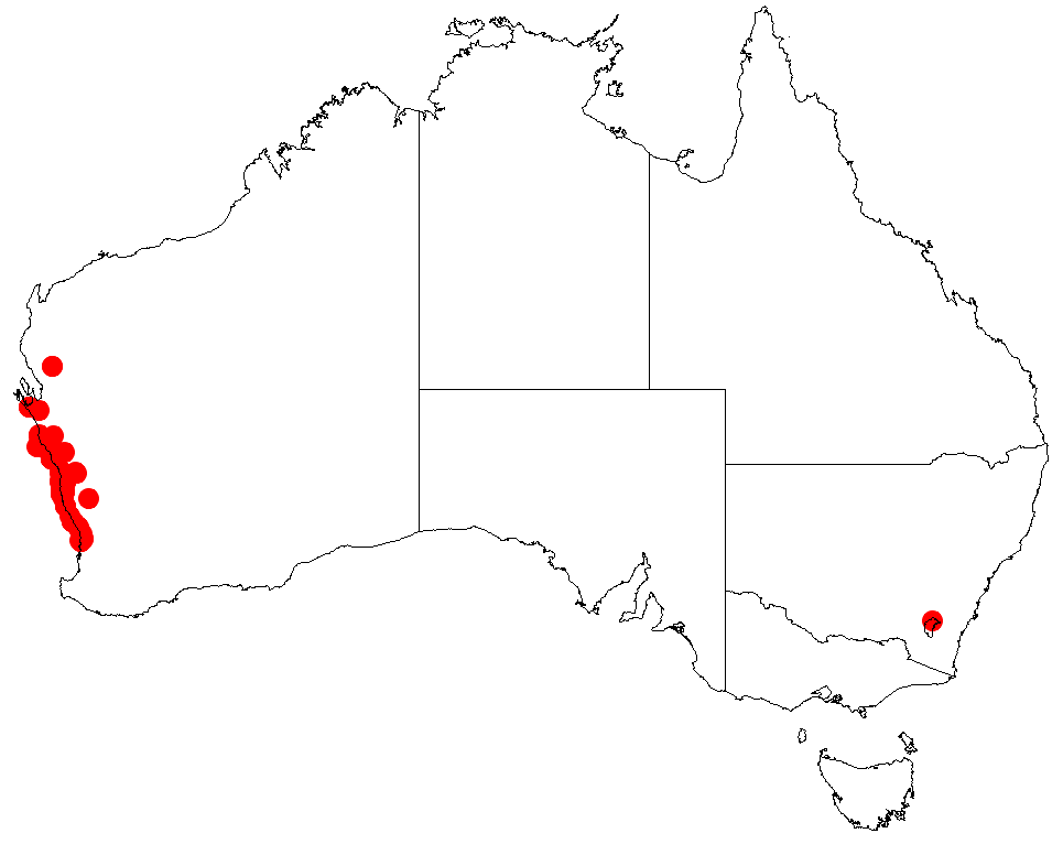 Acacia xanthina occurrence data from Australasia Virtual Herbarium downloaded from on 8 December 2018